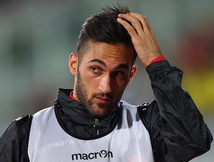 Payam Sadeghian